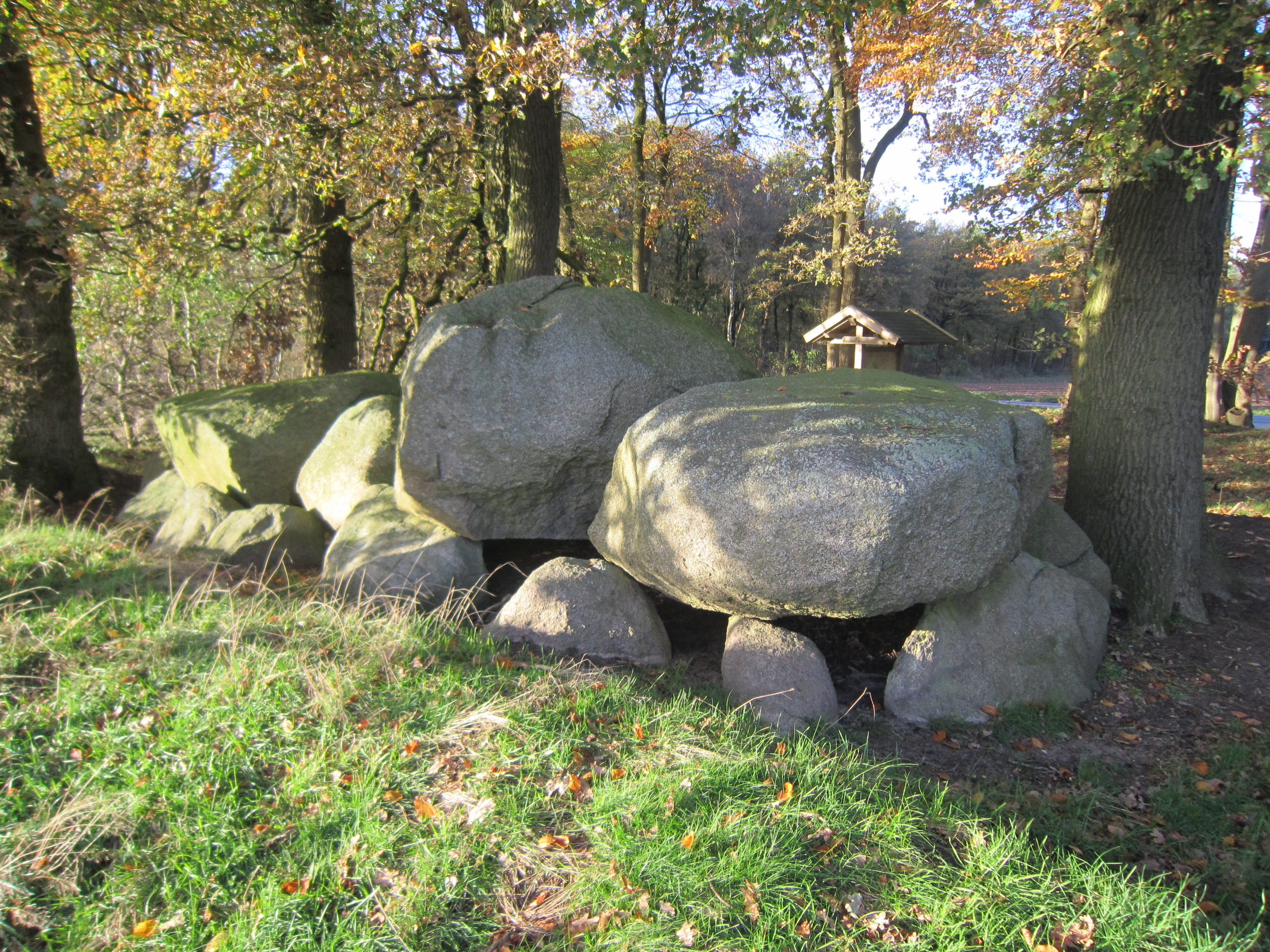 Dolmen "Im Ipeken" in Groß Berßen